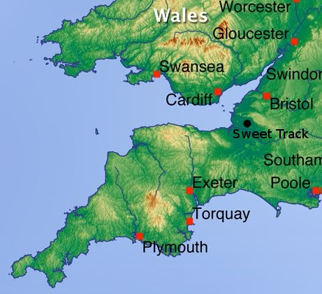 Sweet track on the Map